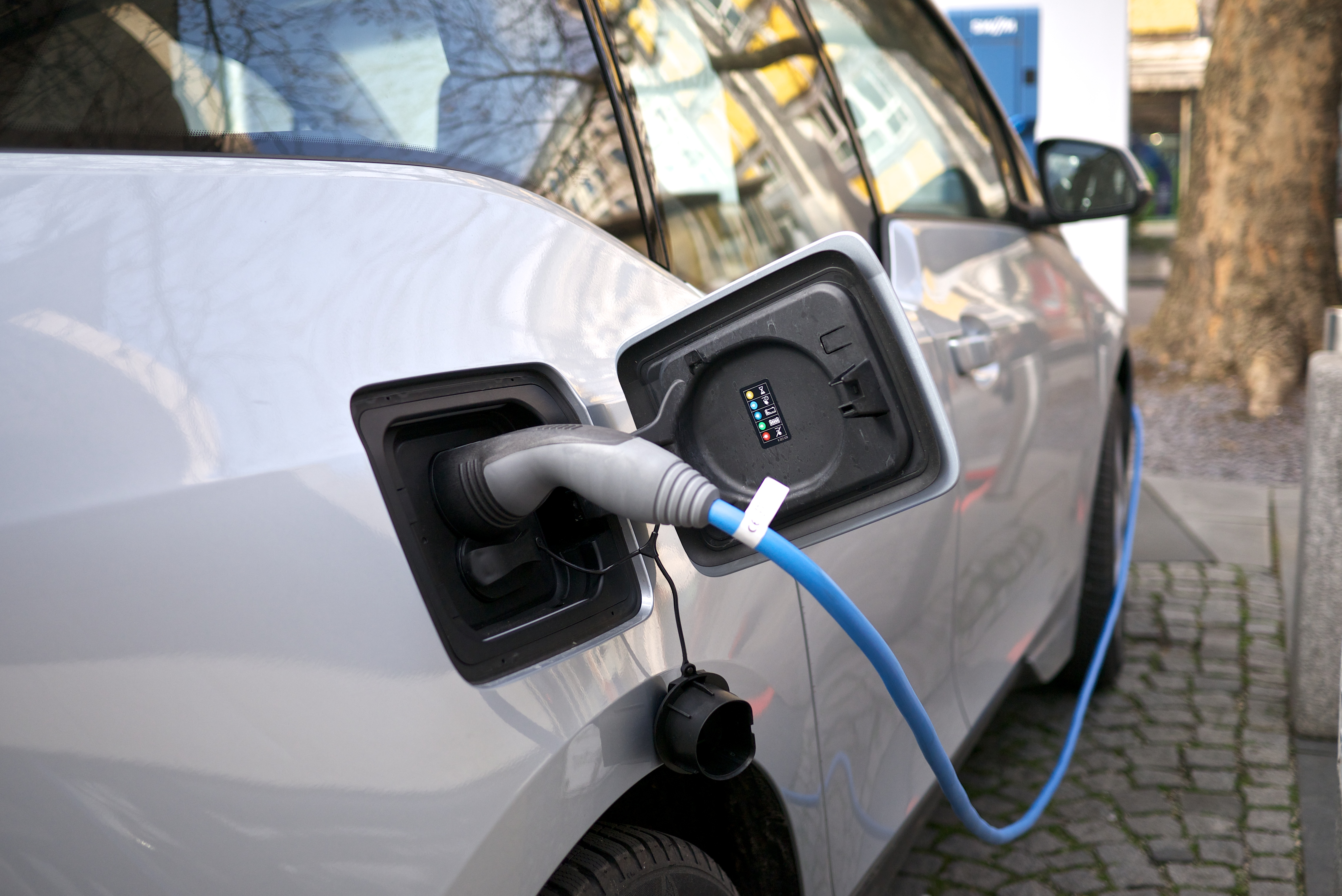 BMW i3 charging port; Lenbachplatz, Munich